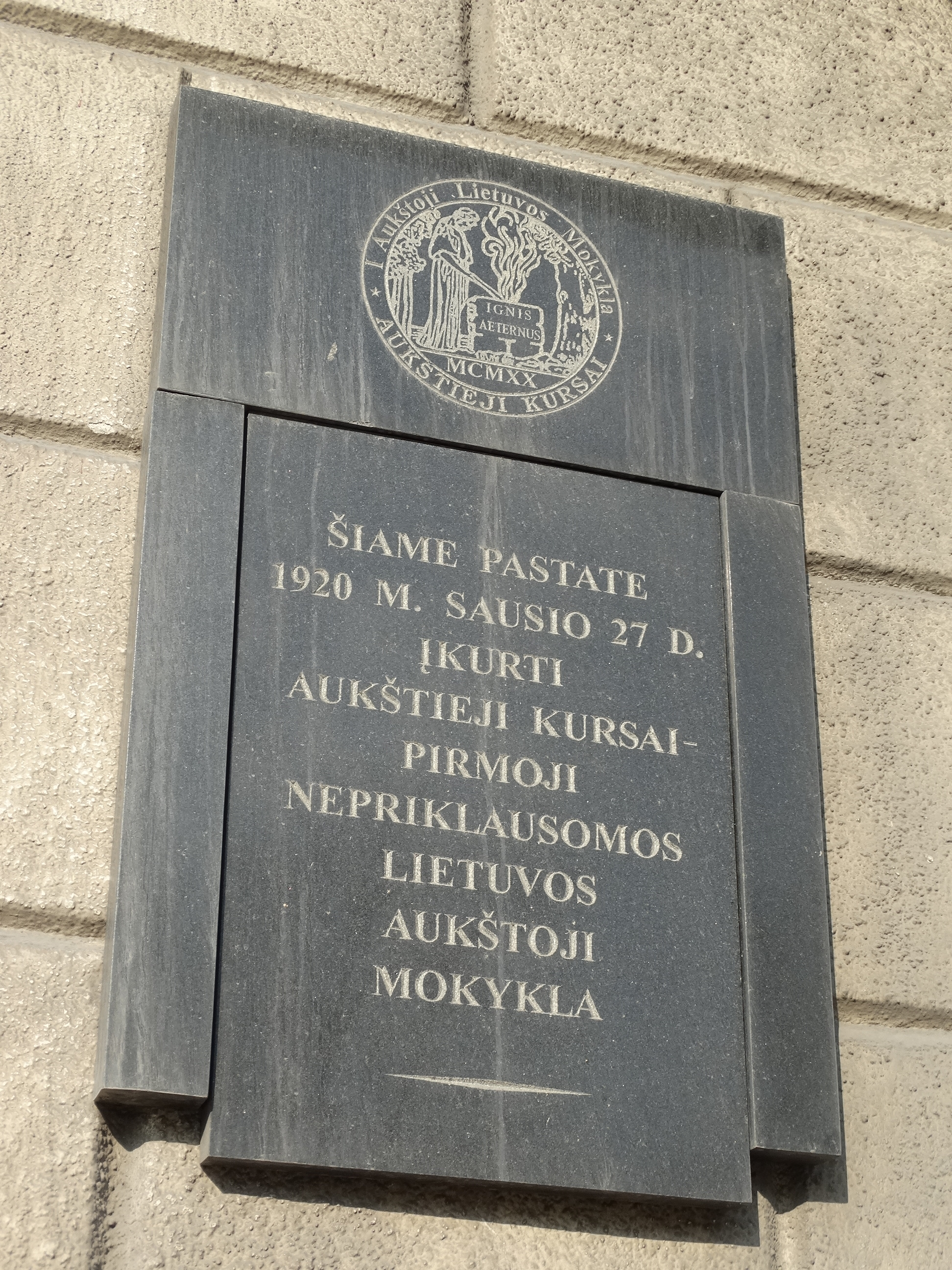 Memorial plaque, Higher Courses of Study, Kaunas